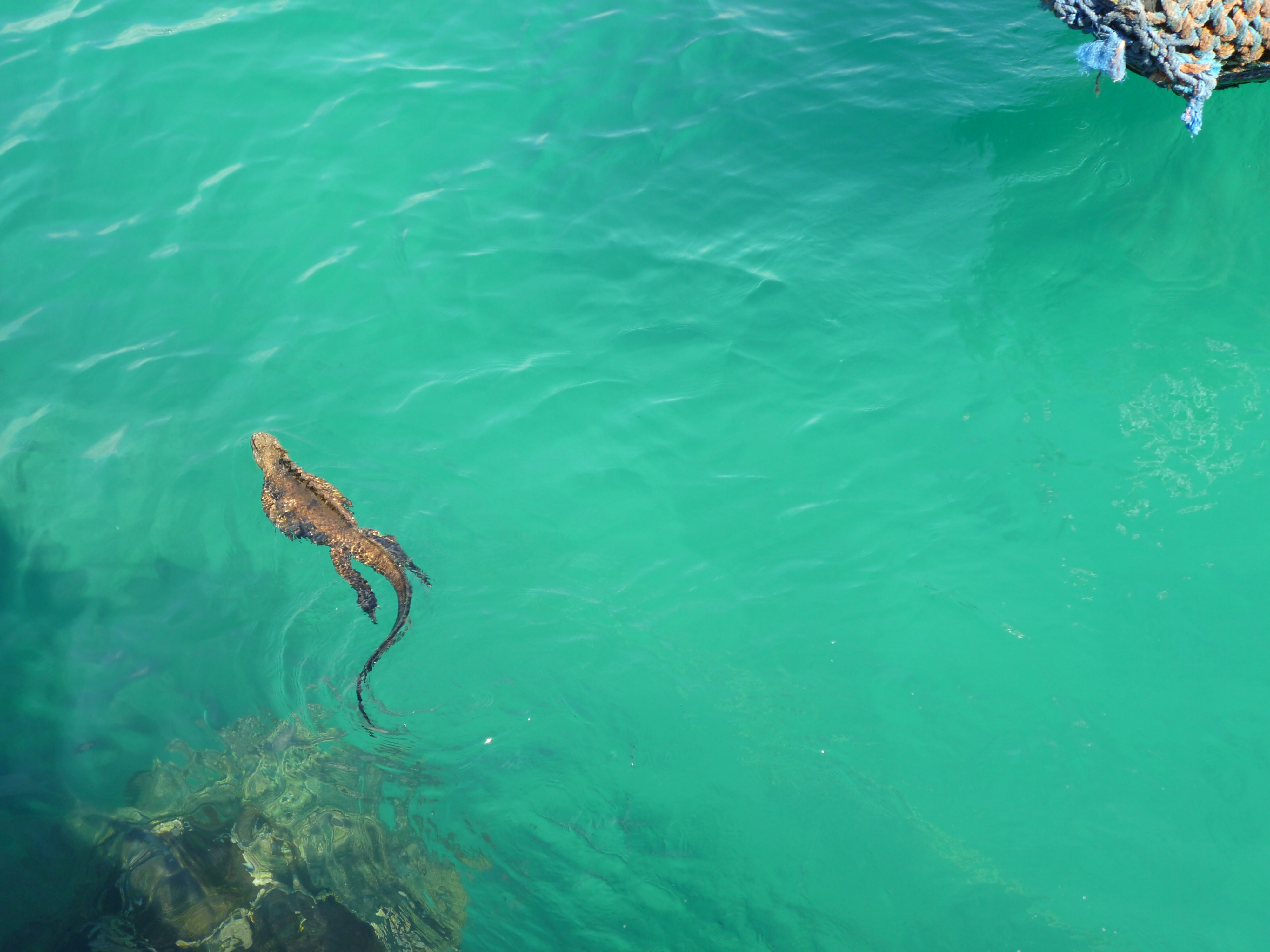 The marine iguana (Amblyrhynchus cristatus) swimming in Puerto Ayora on the southern shore of Santa Cruz island in the Galápagos - Photographed by David Adam Kess.